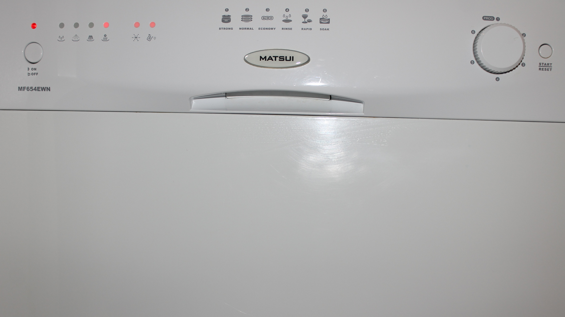 Front panel of dishwasher Matsui MF654EWN.